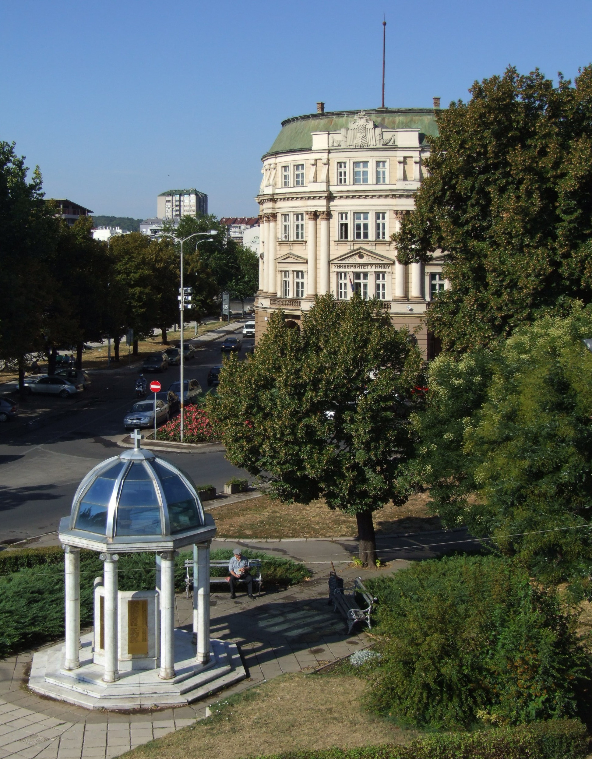 University of Niš and Memorial Chapel 03″ N, 21° 53′ 37.96″ E